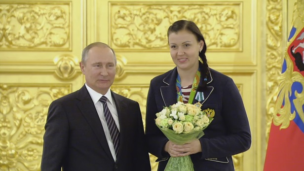 Vladimir Putin presented state awards to the Russian athletes who won gold medals at the 2016 Olympic Games in Rio de Janeiro (Brazil). Tatiana Erokhina is an Olympic champion in women's handball.